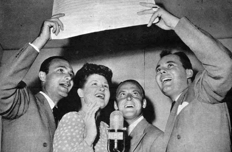 Photo of the vocal group The Pied Pipers. From left-Charles Lowry, Jo Stafford, Clark Yocum, and John Huddleston.